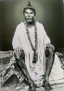 Shri Bramhananda Maharaj